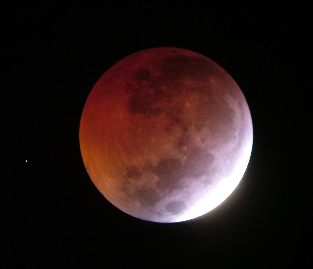 Eclipse of the Moon on 3rd March 2007, shortly before the start of totality. The red hue is due to blue light being preferentially scattered in the Earth's atmosphere by Rayleigh scattering. The edge of the Earth's shadow is seen to be curved, this allows an estimate to be made of the relative sizes of the Earth and the Moon. Taken using a Fuji FinePix S7000 camera through the eyepiece of a 12 inch F4 Newtonian telescope.